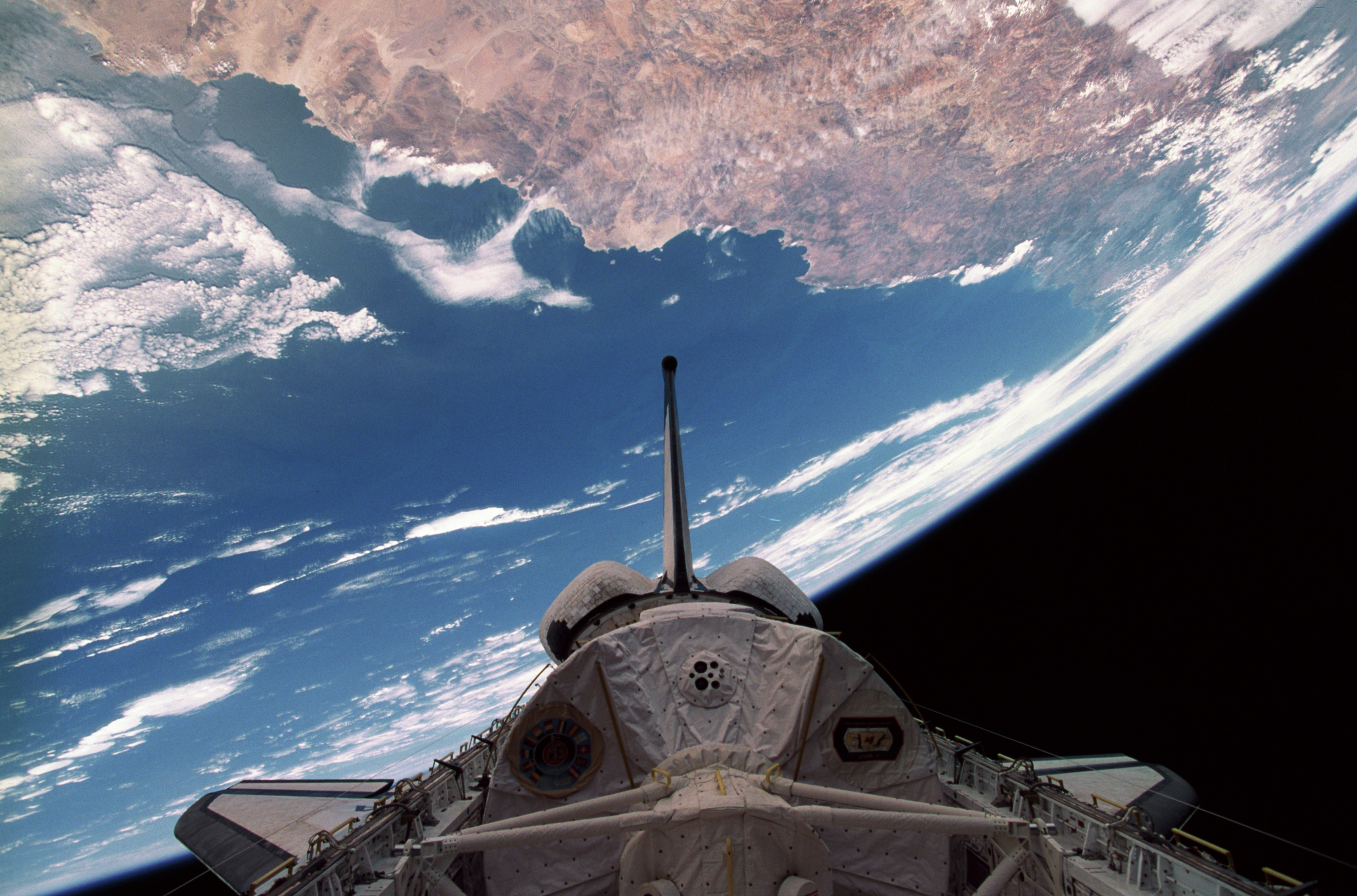 This week in 1995, the space shuttle Columbia and STS-73 launched from NASA’s Kennedy Space Center carrying USML-2, the U.S. Microgravity Laboratory-2. Here, the lab is visible in the orbiter’s cargo bay. U.S. Microgravity Laboratory-2, managed by NASA’s Marshall Space Flight Center, conducted experiments on fluid physics and the effects of microgravity on combustion and the formation of semiconductor crystals. Today, the Payload Operations Integration Center at Marshall serves as "science central" for the space station, working 24/7, 365 days a year in support of the orbiting laboratory's scientific experiments. The NASA History Program is responsible for generating, disseminating and preserving NASA’s remarkable history and providing a comprehensive understanding of the institutional, cultural, social, political, economic, technological and scientific aspects of NASA’s activities in aeronautics and space. For more pictures like this one and to connect to NASA’s history, visit the Marshall History Program’s webpage.